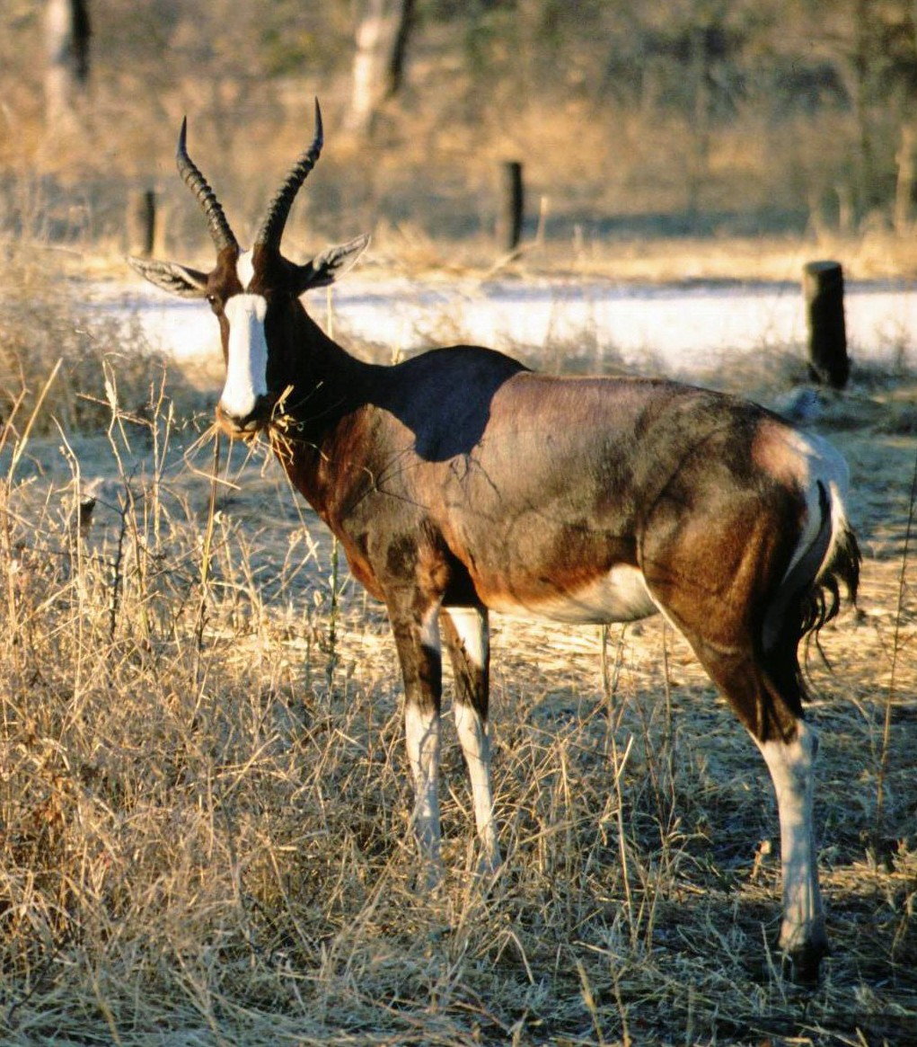 Bontebok (Damaliscus pygargus pygargus), Mokuti Lodge, North Namibia